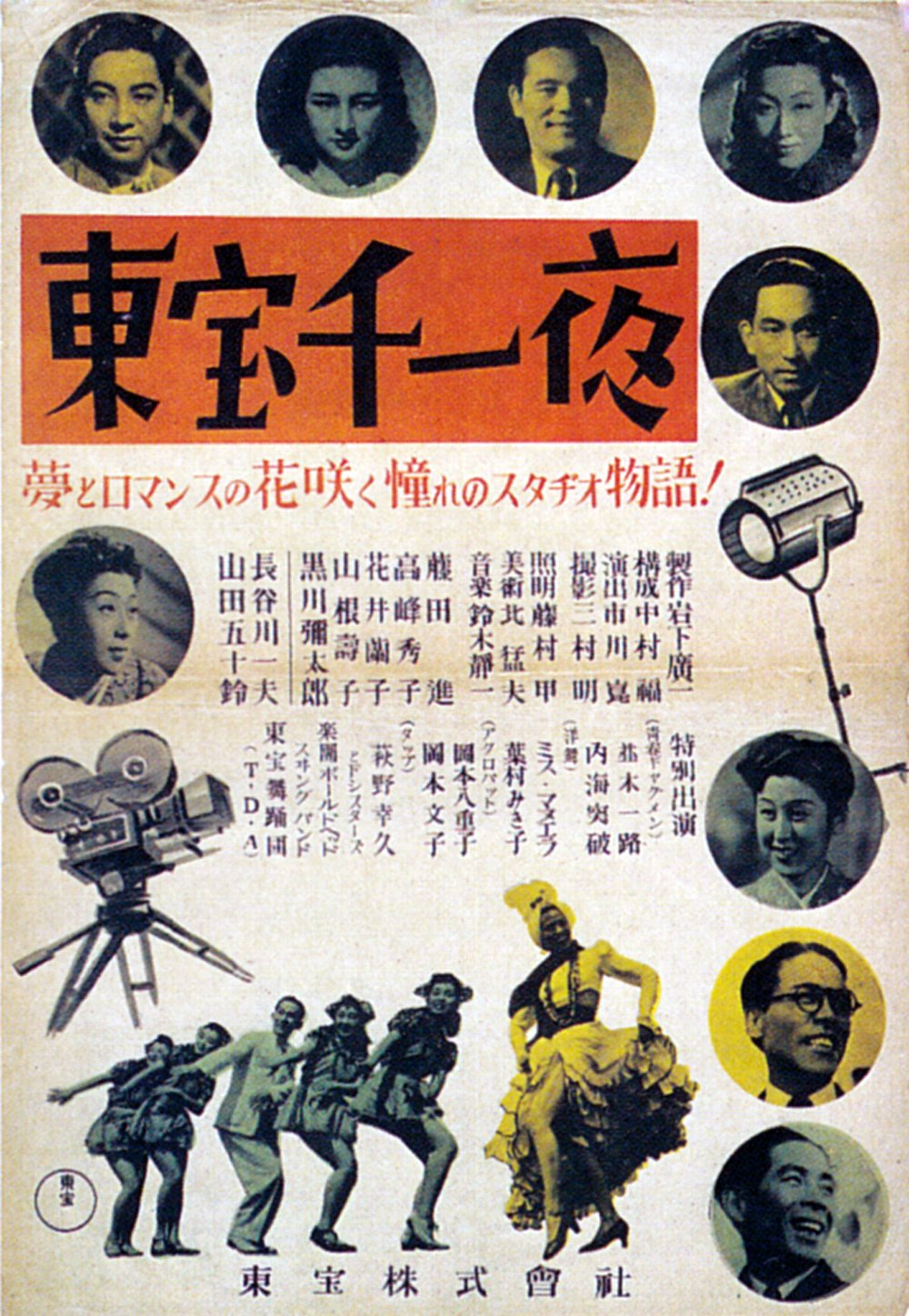 Movie poster for 1947 Japanese movie A Thousand and One Nights with Toho (東宝千一夜 Toho senichi-ya).